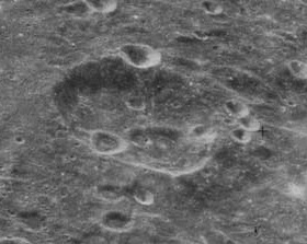 Strömgren lunar crater. Part of the Frame 25, made by Zond 8.